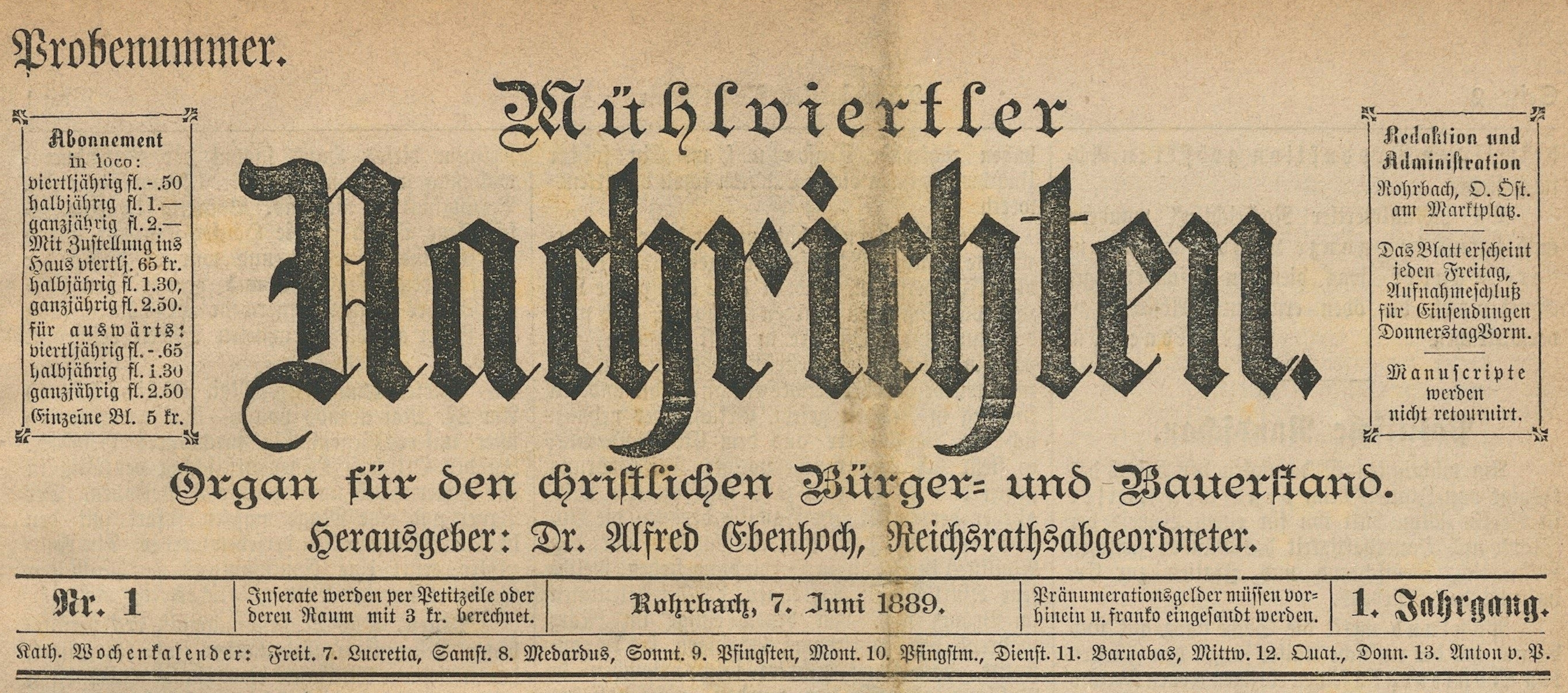 Header of the title page of the Upper Austrian weekly Mühlviertler Nachrichten, published from 1889 to 1986.